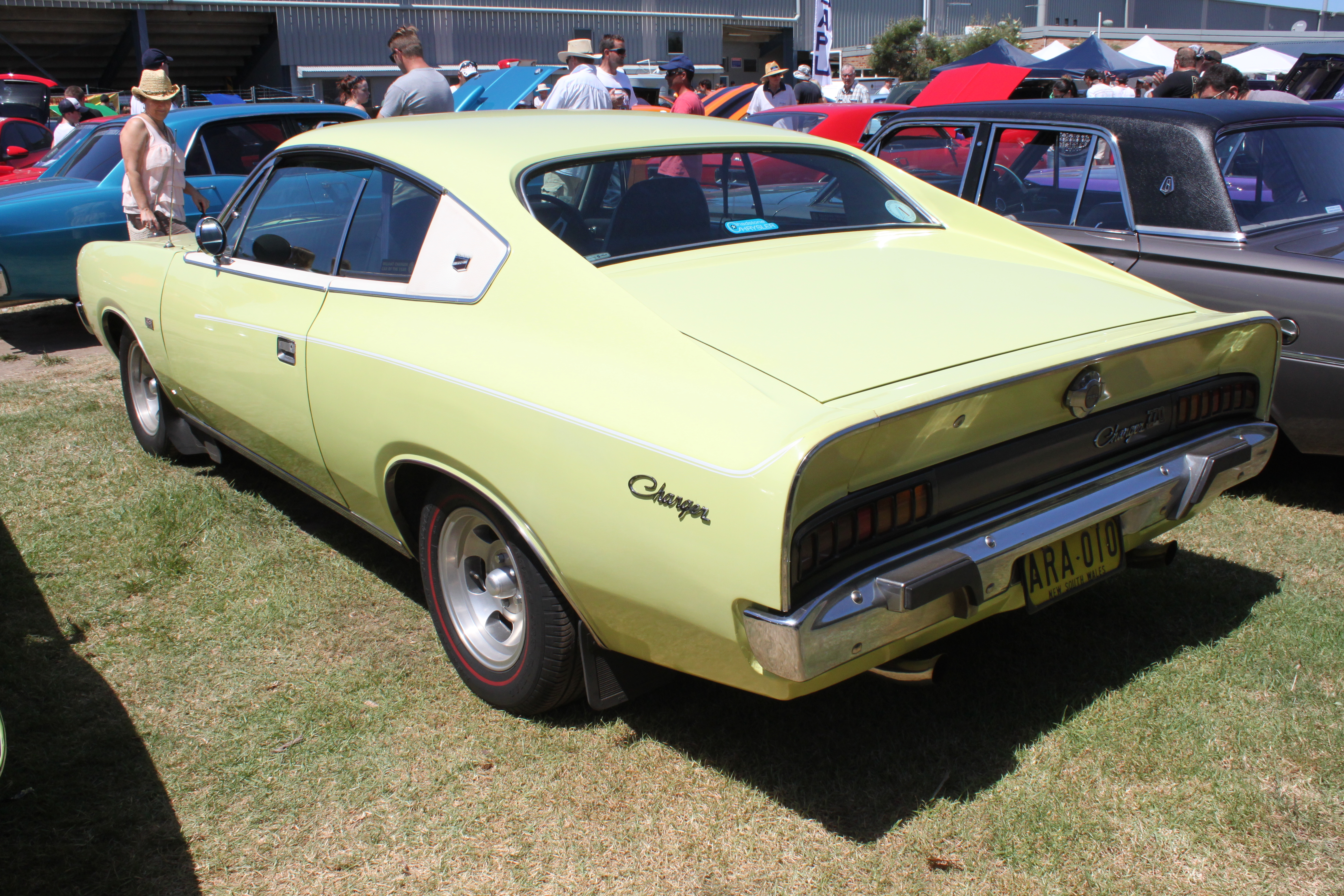 Northern Beaches Car & Bike Fest, Pittwater Rugby Park, NSW, February 2016